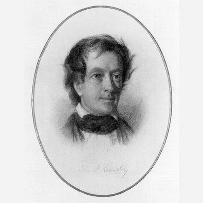 Portrait of John Pendleton Kennedy, Secretary of the Navy, by Eastman Johnson, c. 1844-1846.